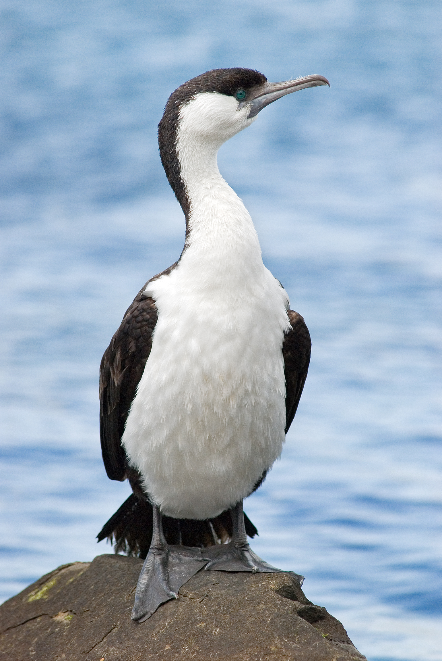 A black faced cormorant, Hobart, Tasmania.